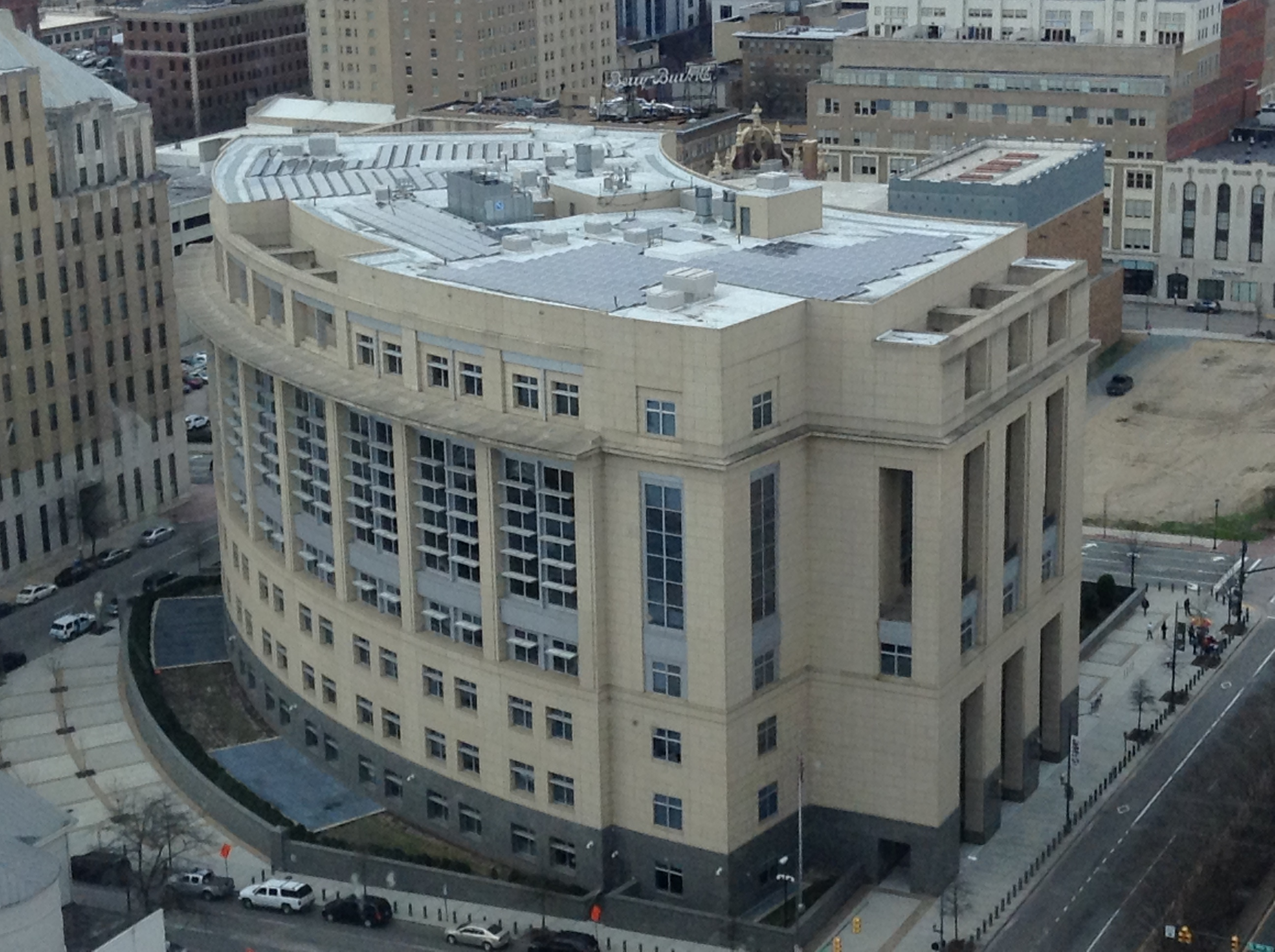 Photo taken March 17, 2015